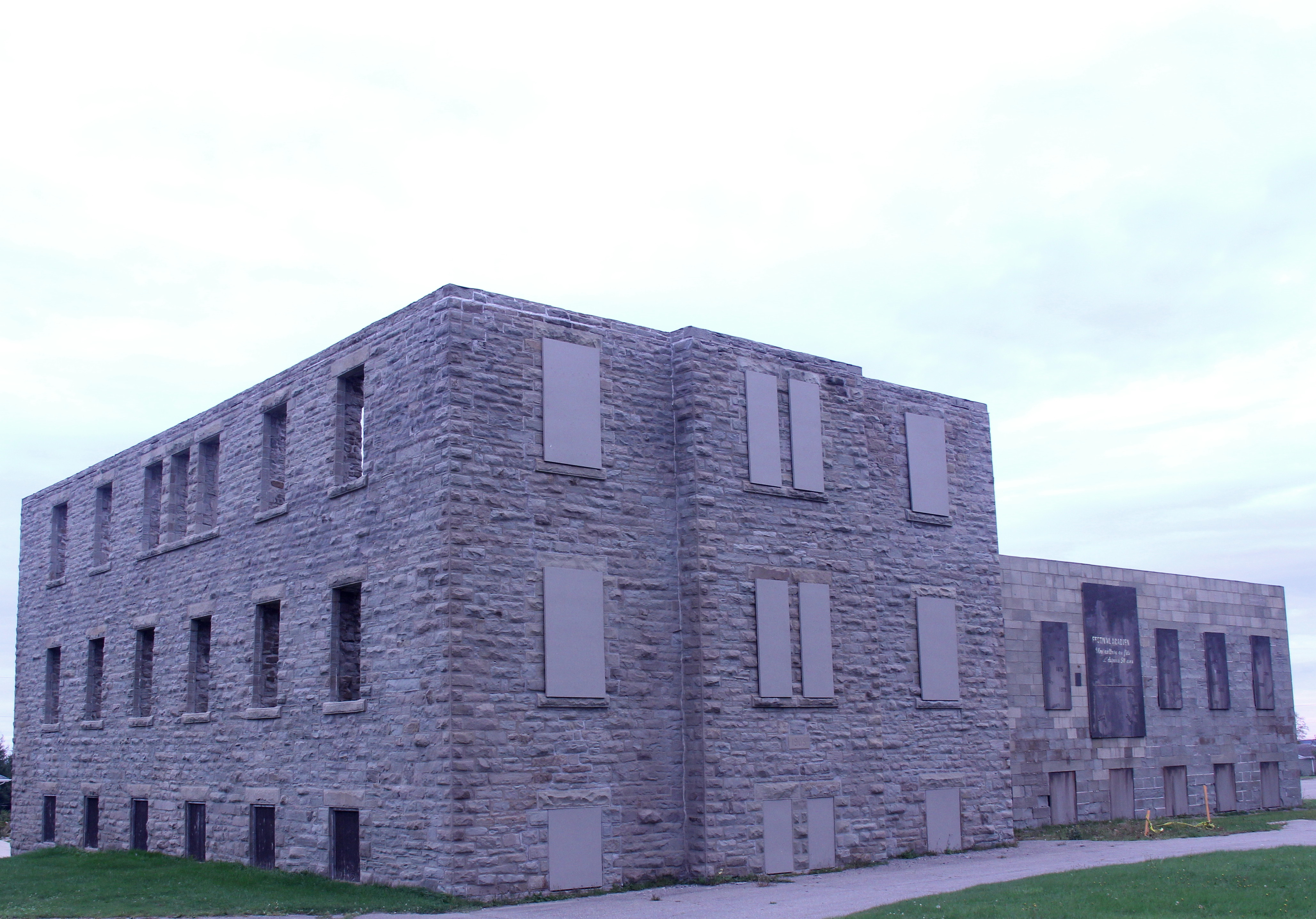 visit